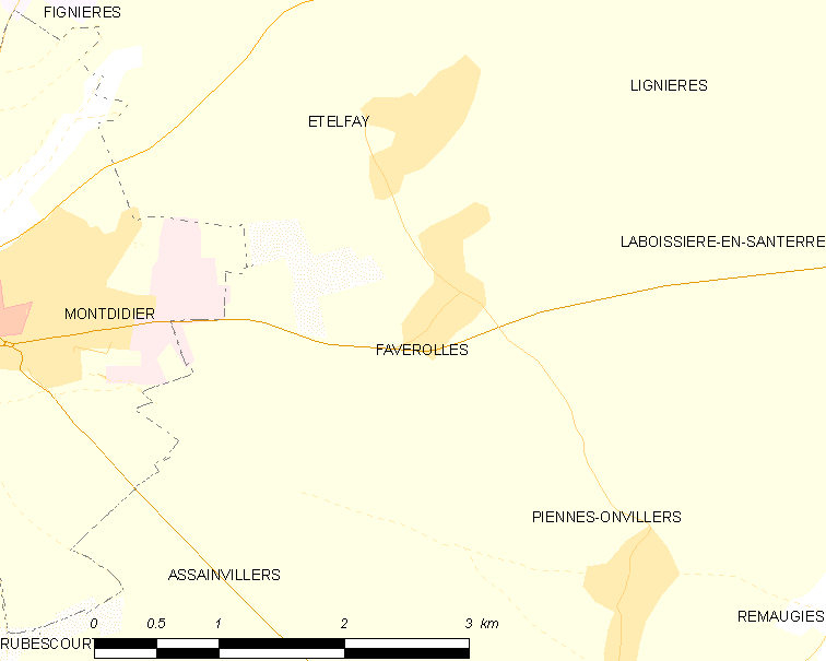 Map of French municipality Faverolles